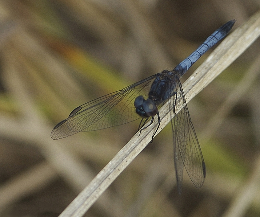 (Male) Little Blue Dragonlet (Erythrodiplax minuscula -- Family: Libellulidae). Spirit Of The Wild Wildlife Management Area, Hendry Co., Florida 02/09/2008